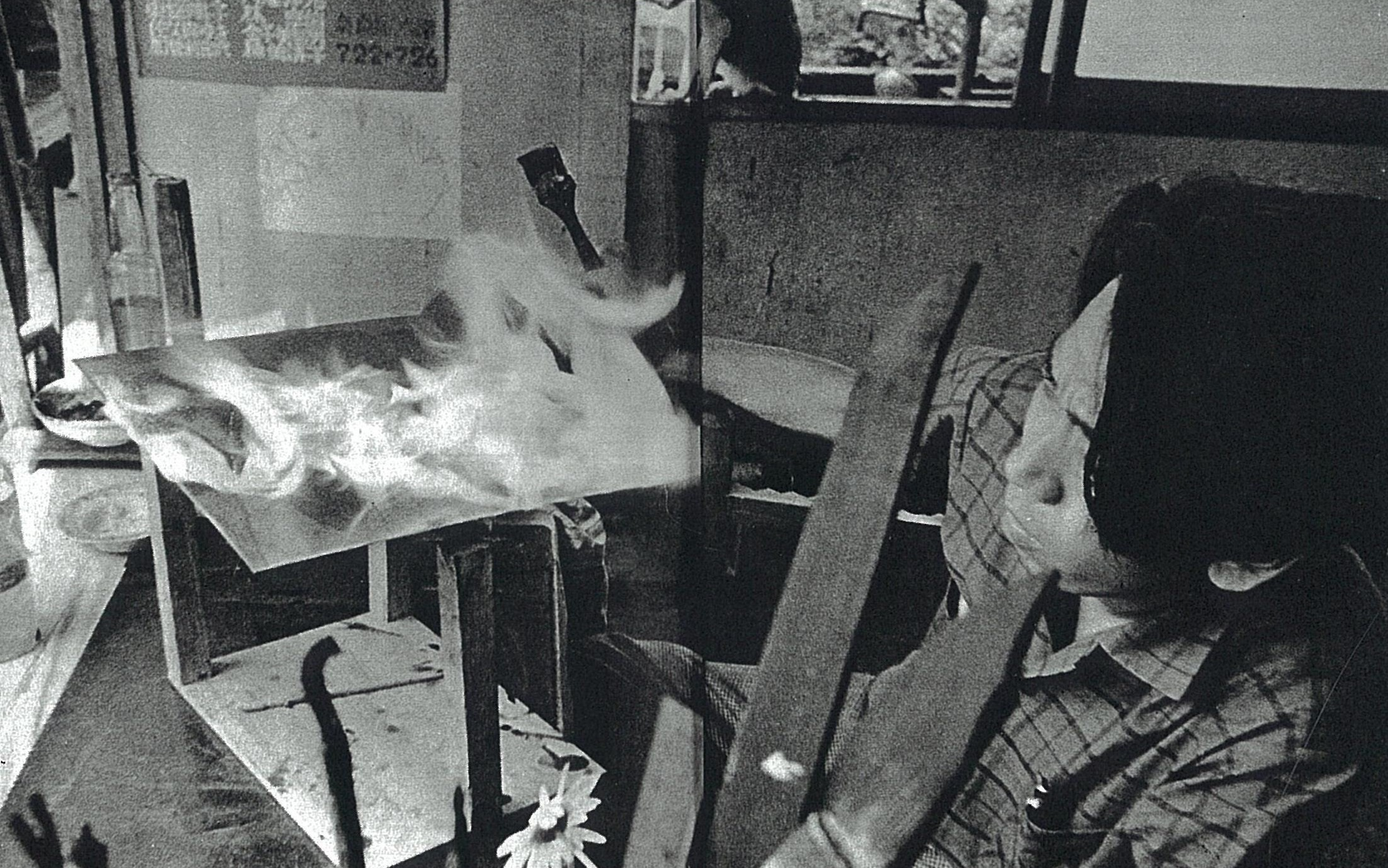 Yukio FUKAZAWA (1924-), Japanese woodblock artist